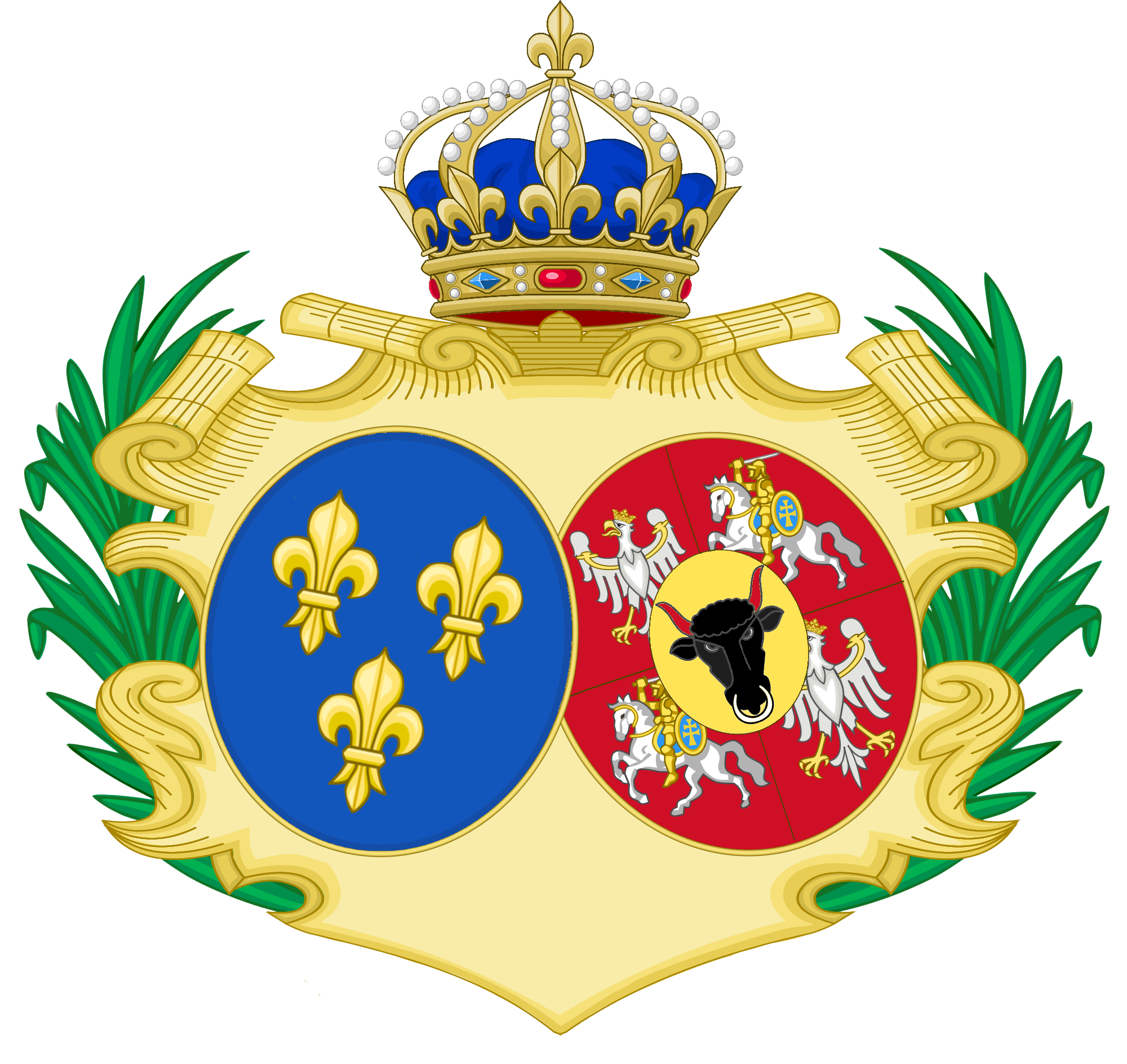 Arms of Marie Marie Leczsinska, wife of Louis XV. To improve if necessary.